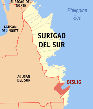 Map of the Surigao del Sur showing the location of Bislig